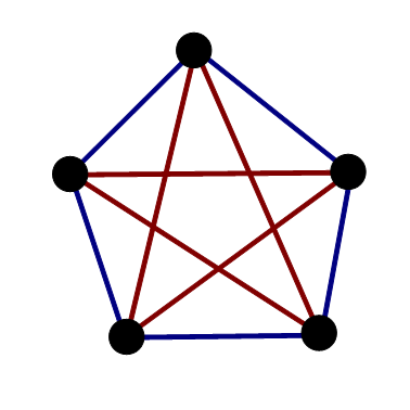 one possible Graph factorization of K 5 {\displaystyle K_{5